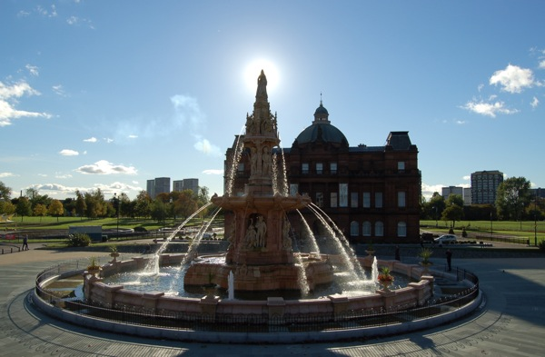 Doulton Fountain - Outside The People's Palace, Glasgow Green. See where this picture was taken. [?]